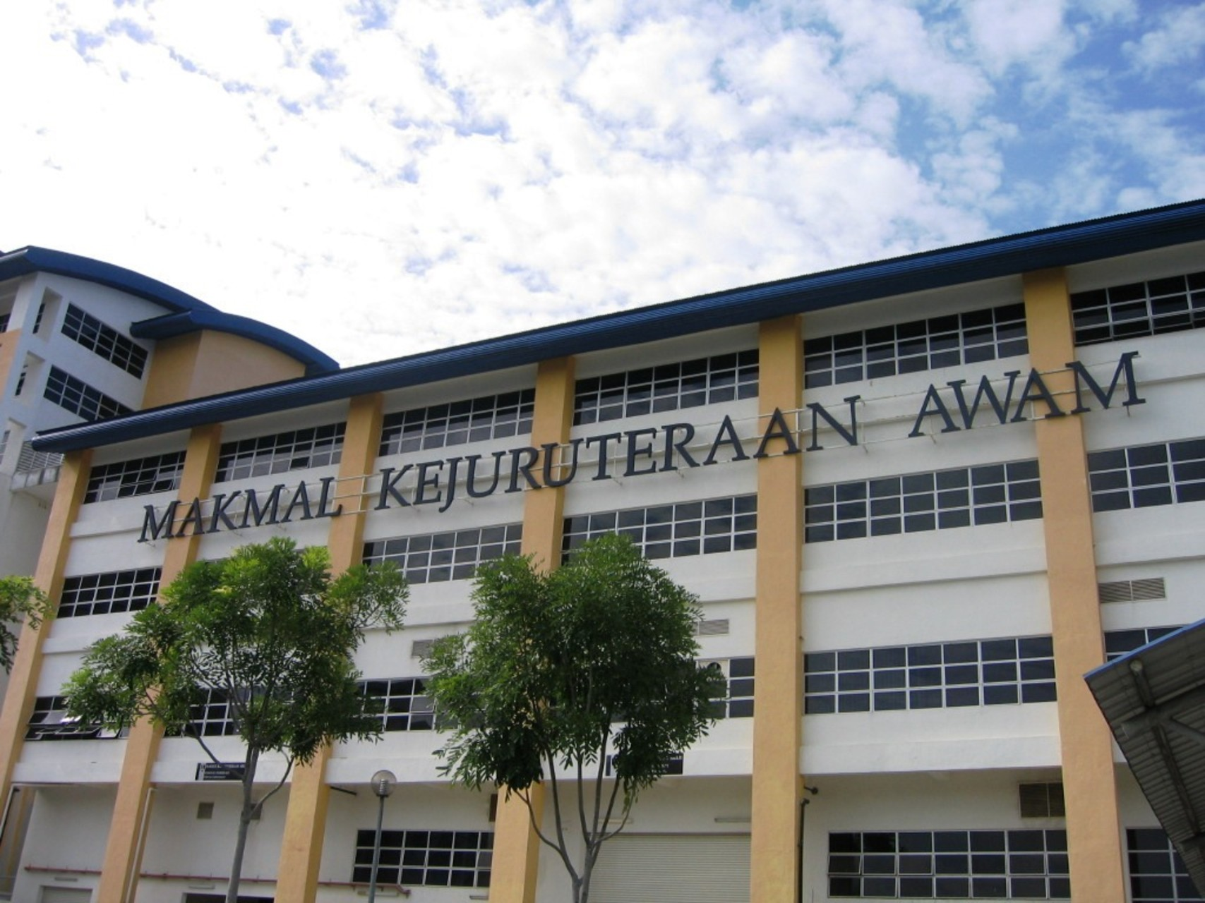 Civil Engineering UiTM Laboratory